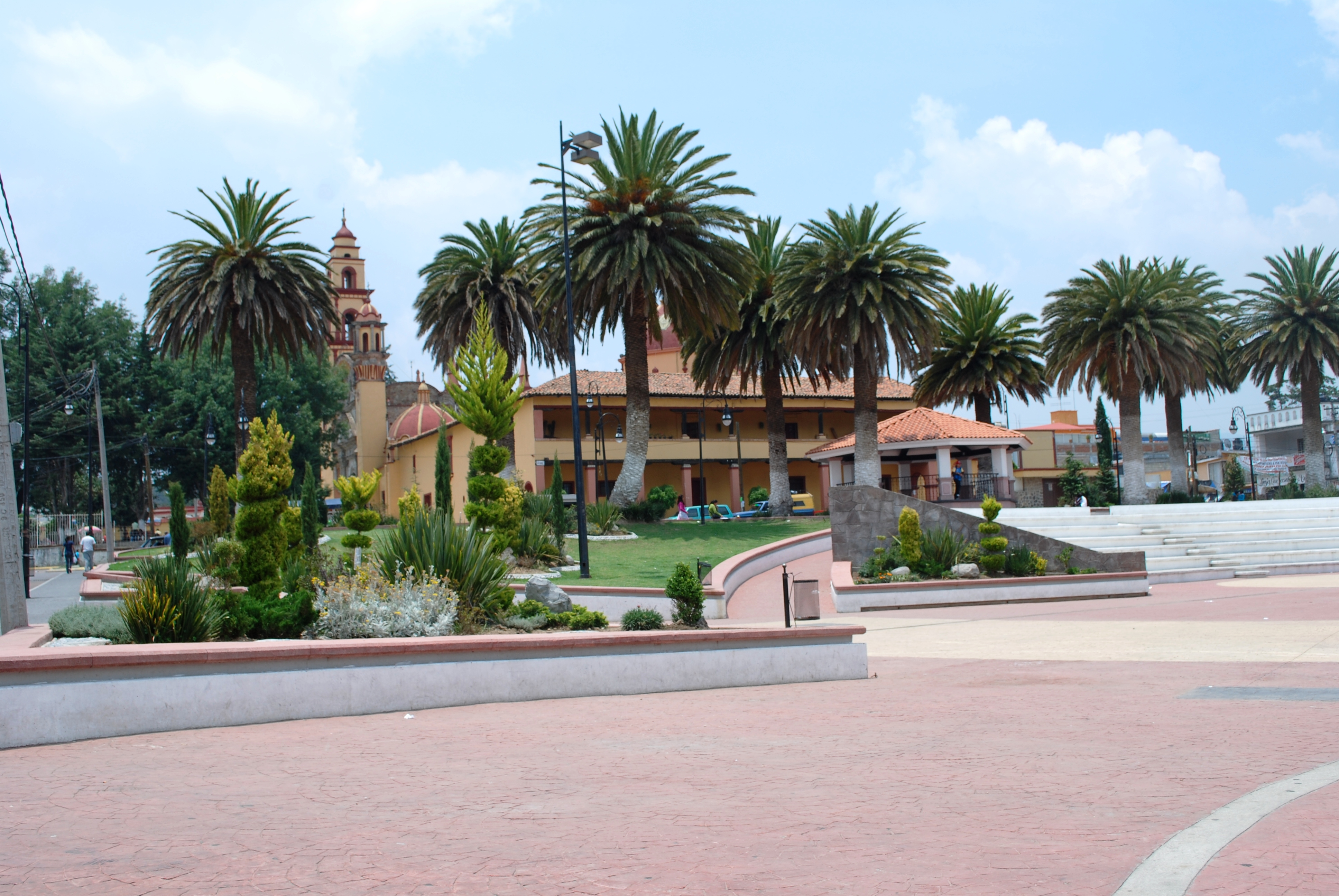 View of the main plaza of Temoaya, Mexico State